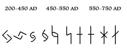 evolution of the j-rune.